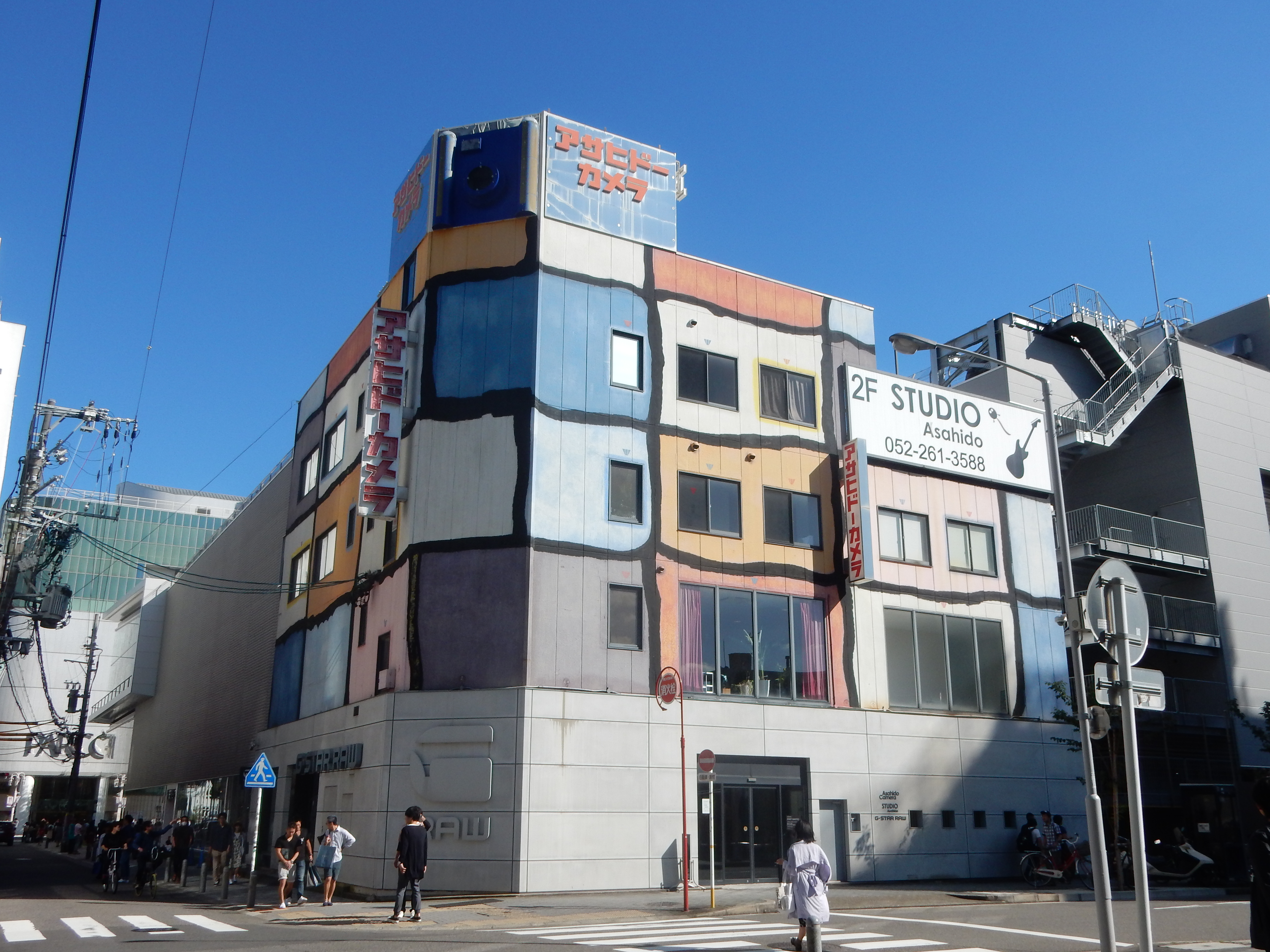 Asahido Camera (アサヒドーカメラ), located at 3-28-36 Sakae, Naka, Nagoya, Aichi, Japan